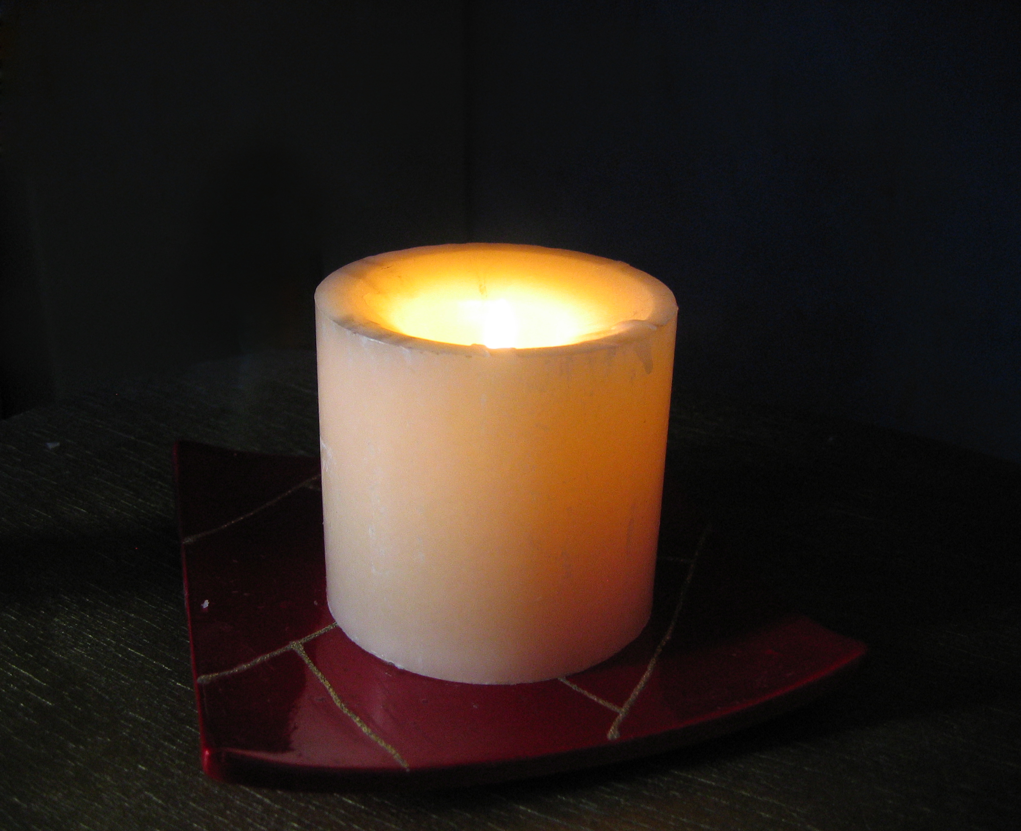 Burn_candle